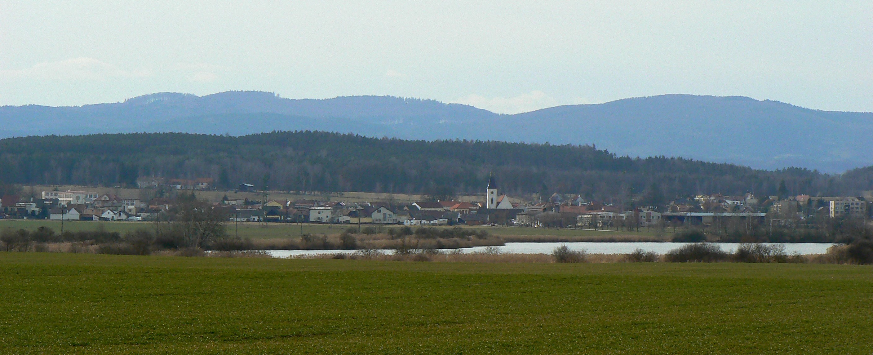 View of Dubné, České Budějovice District, Czech Republic